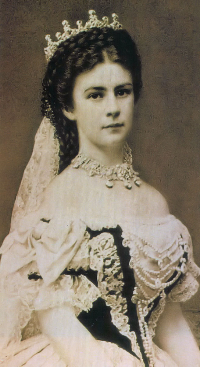 Photograph of Empress Elisabeth of Austria (1837–1898), the day of her coronation as Queen of Hungary.